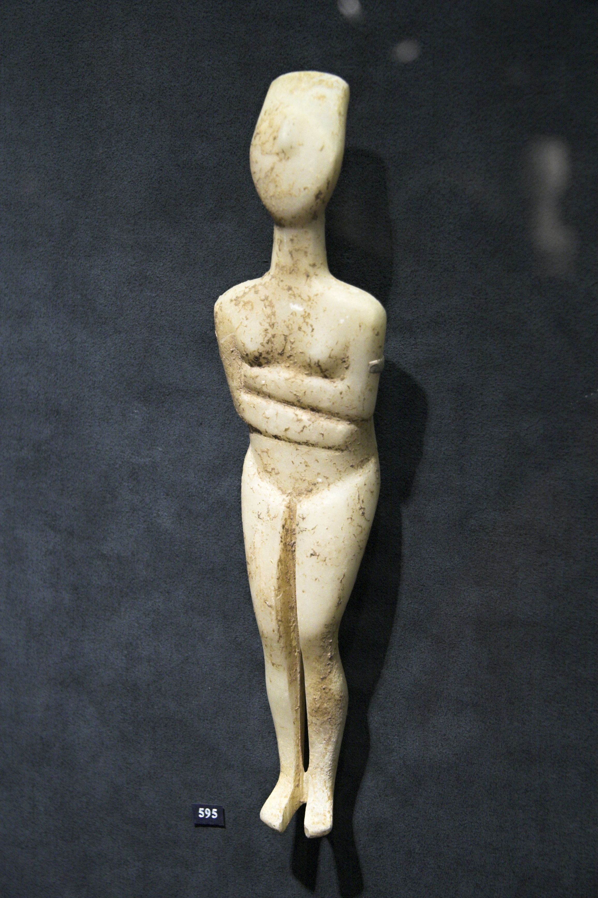 Idol, the canonical type, variety Kapsal, marble, height 25 cm, of unknown origin. EC II, 2800-2300 BC. Goulandris Foundation Museum of Cycladic Art (Athens), NG 595.